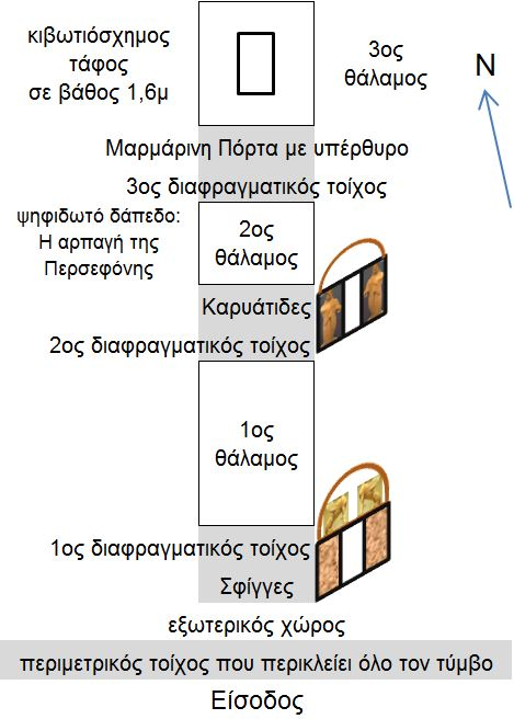 The tomb in Kasta hill